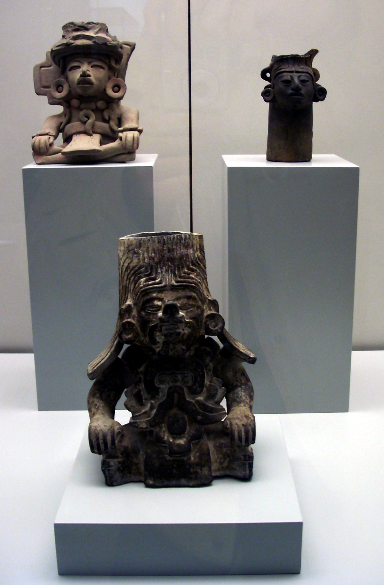 Zapotec artefacts in the Museo de América, Madrid. Items 85/1/127, 91/11/68 and 85/1/231 (left to right).